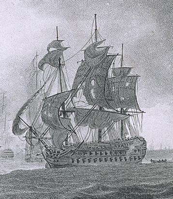 View of Lord Bridport's Action off L'Orient, 1795 Vignette from the 'Naval Chronicle', 1799, f. p. 300. The accompanying description states that the view is from the north-west, showing the enemy nearing Port Louis, with Bridport's flagship 'Royal George' in the centre and the captured French 'Tigre' on the left. After Howe's victory of 1 June 1794, Alexander Hood (third in command) was ennobled as Baron Bridport. On 12 June 1795, at a period Howe was unwell ashore, Bridport sailed to escort a British expedition supporting a royalist rising in Brittany and detached the troop convoy and escort under Sir John Borlase Warren close to Belle Île. The French fleet under Villaret-Joyeuse had also left Brest and was sighted by Warren off of Belle Île. Warren evaded them and sent word to Bridport who sighted them on 22 June. The French had only twelve of the line; Bridport, with Warren's ships, a potential seventeen. Bridport gave chase and engaged on 23 June about six miles west of the Ile de Groix, taking three French ships before Villaret found refuge in Lorient. View of Lord Bridport's Action off L'Orient, 1795